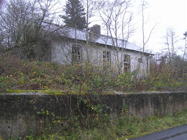 Commas National School It is in a state of disrepair